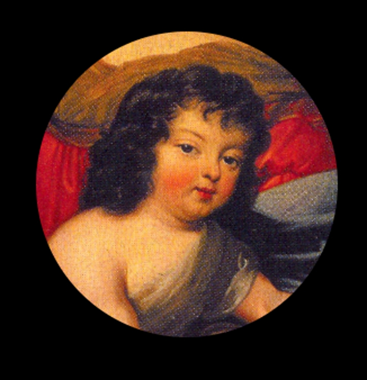 Detail of: Madame de Maintenon with the Count of Vexin and the Duke of Maine